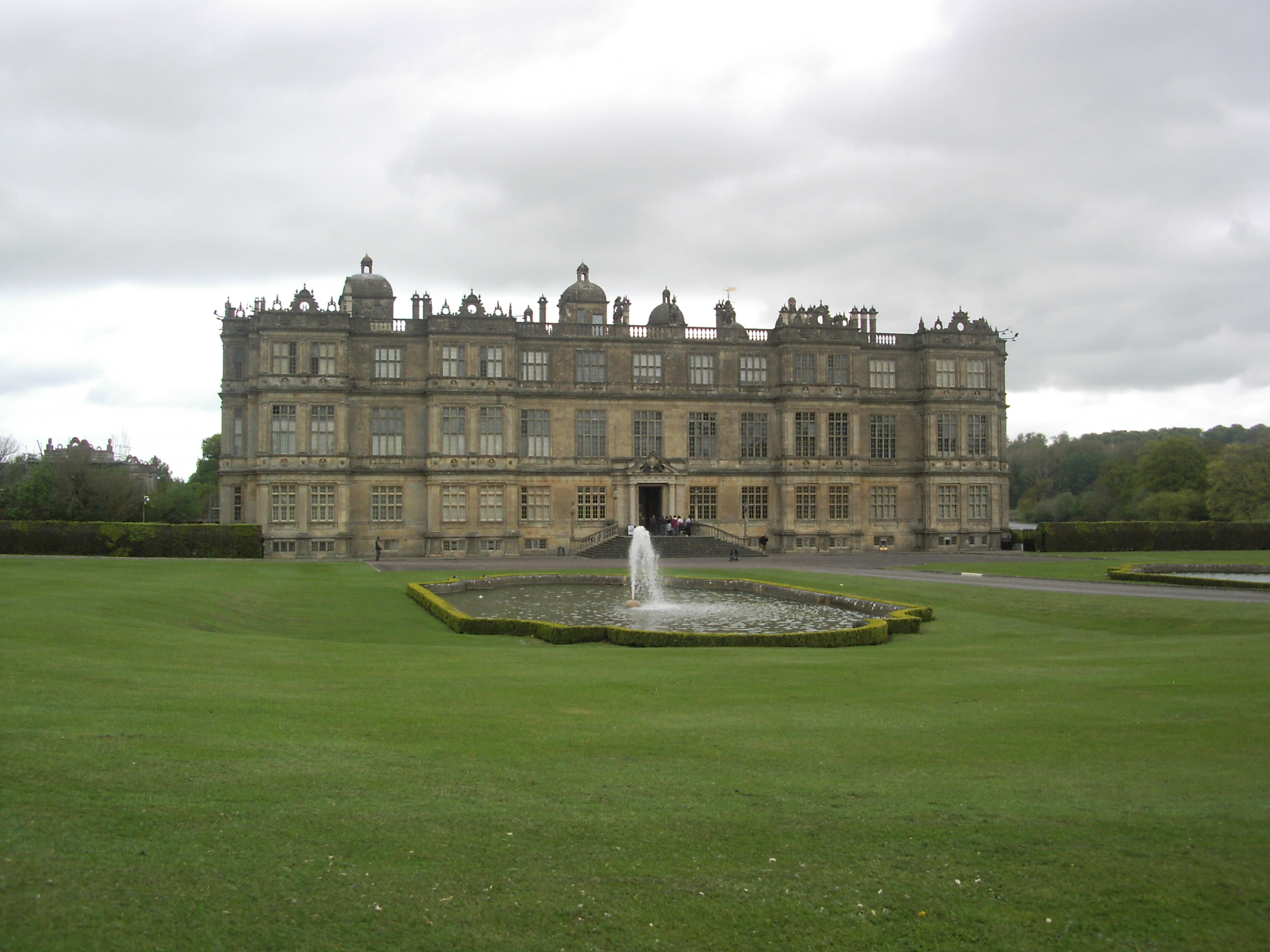 Longleat house citade.